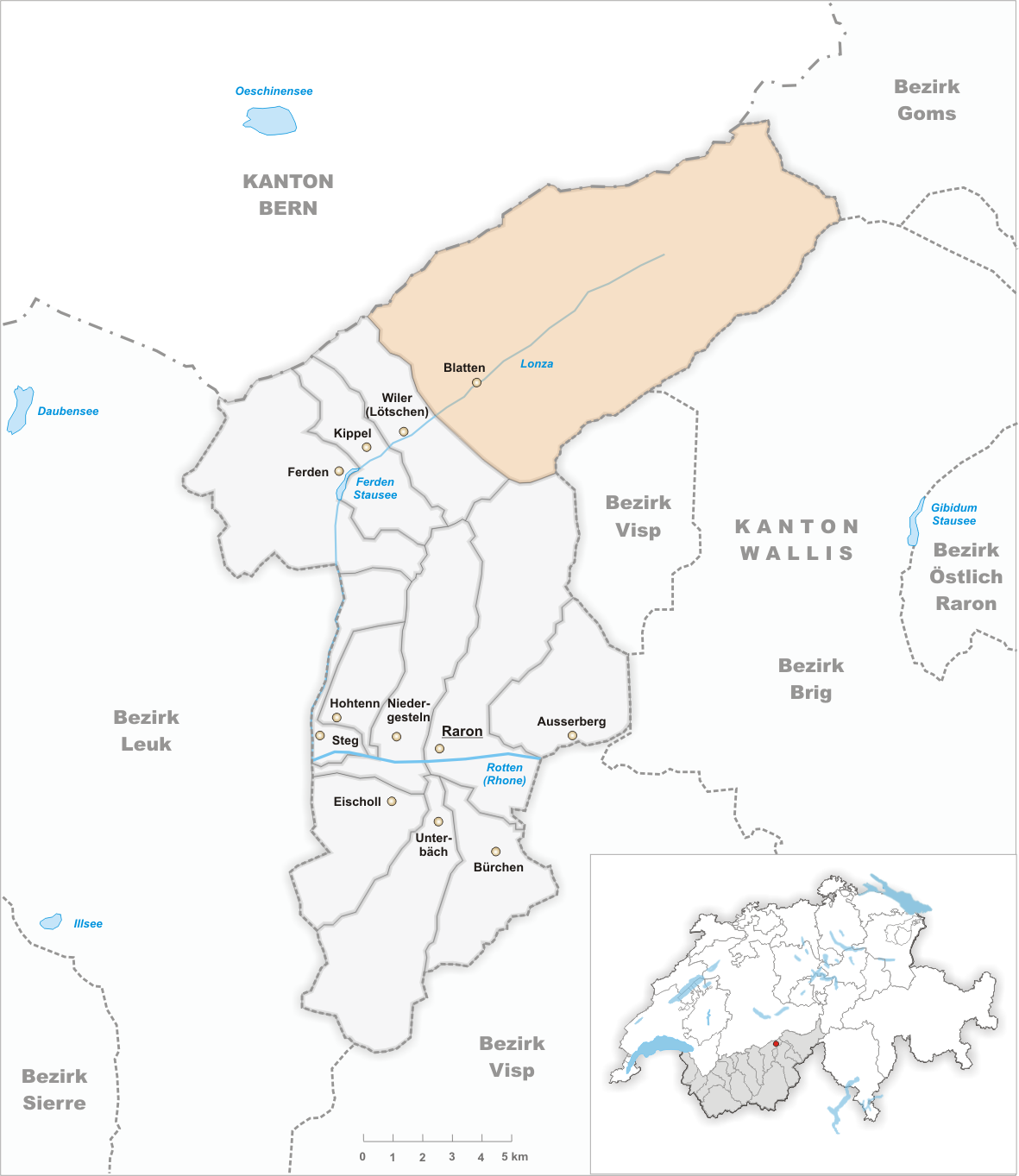 Municipality Blatten